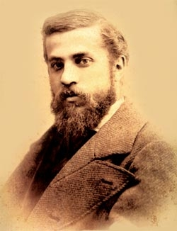 Portrait photograph of Antoni Gaudí i Cornet (1852-1926)